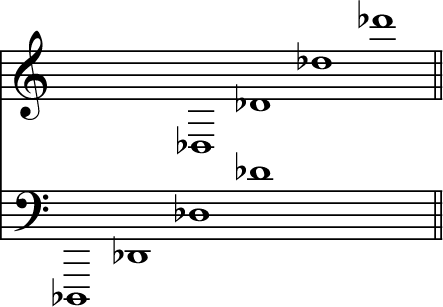 Notes, D Flat